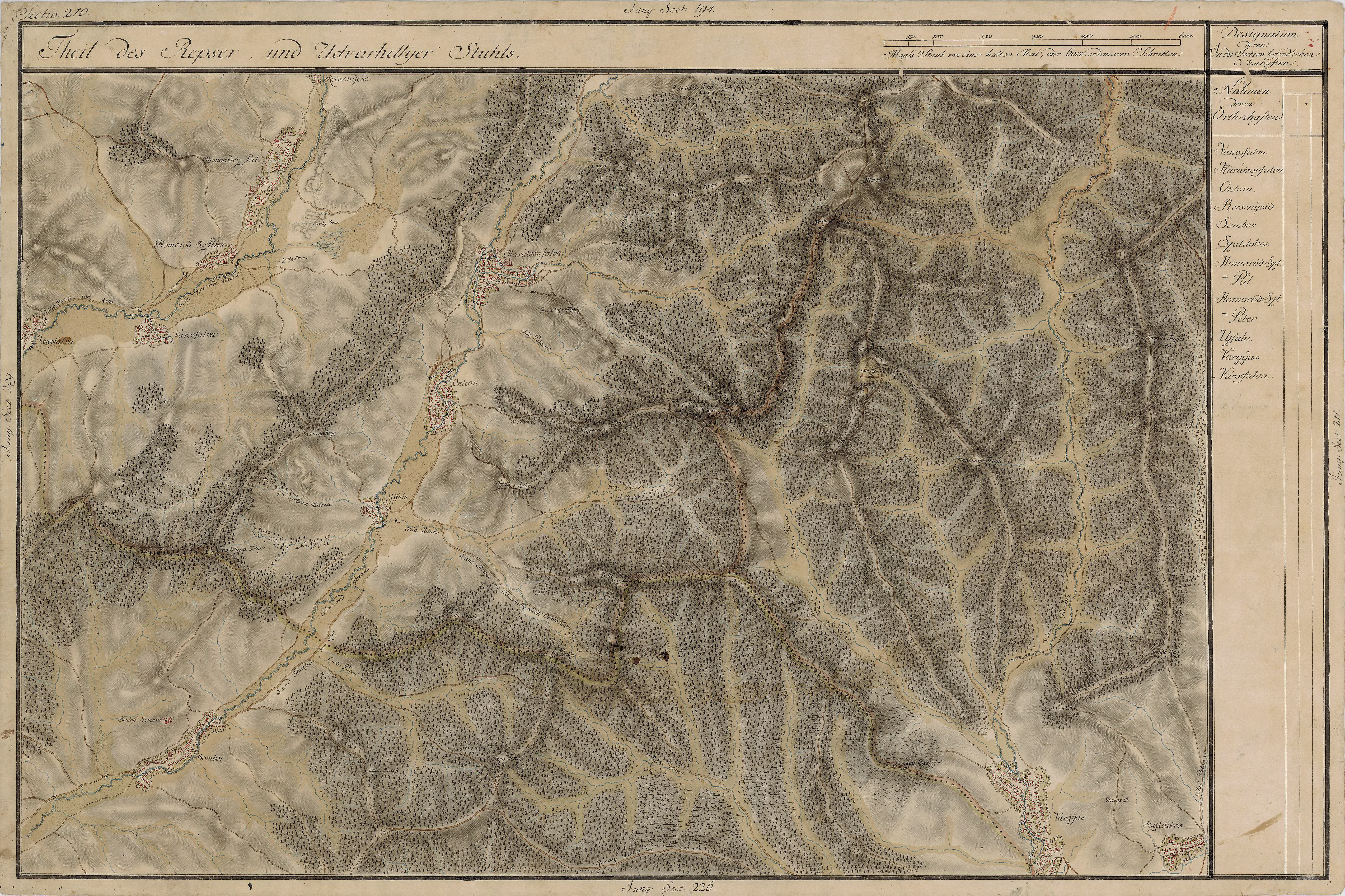 Grand Duchy of Transylvania, 1769-1773. Josephinische Landaufnahme pg.210